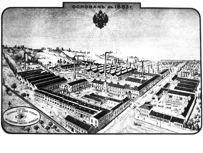 Plant of John E. Greaves, Berdiansk. 1890s.